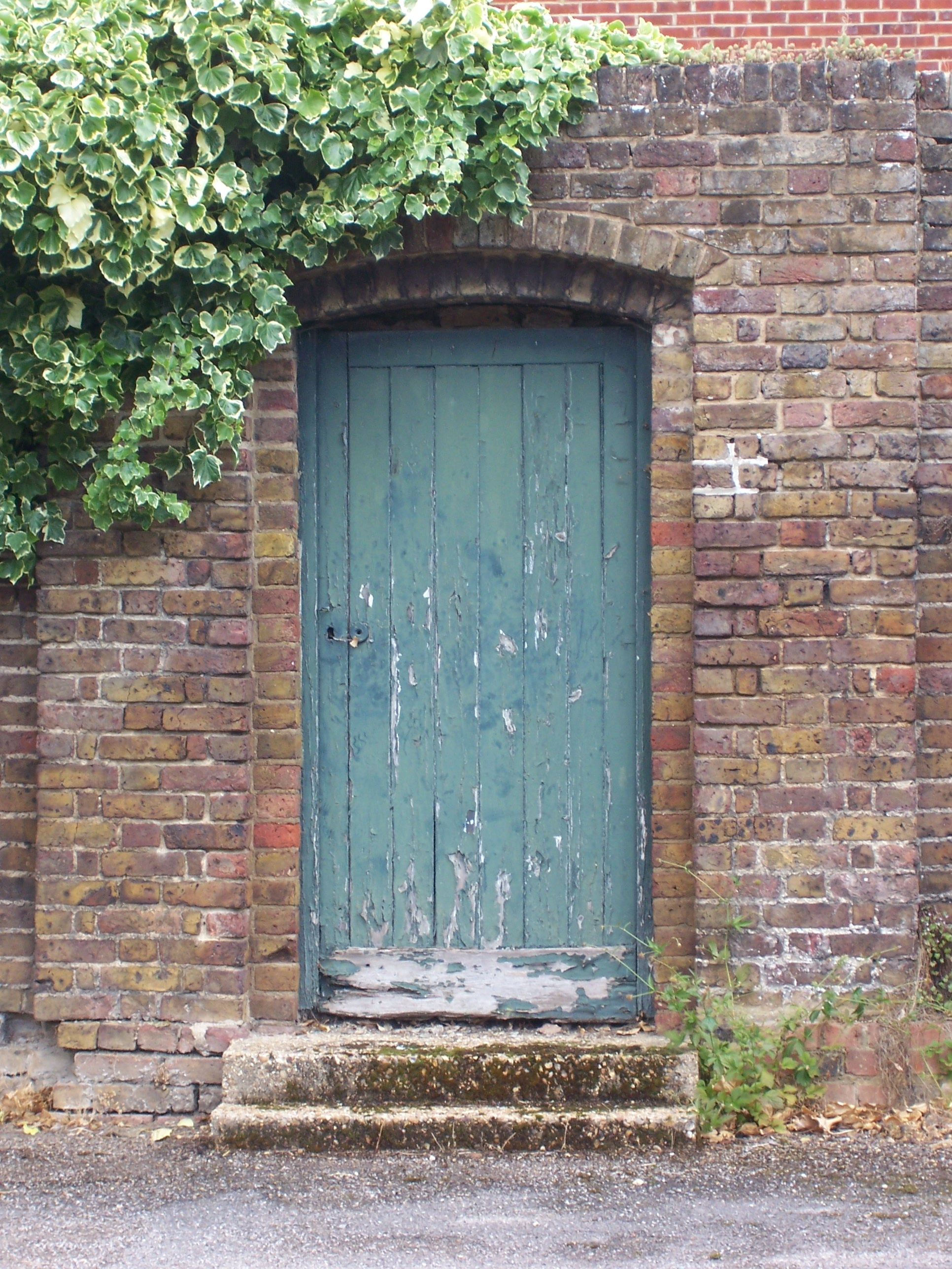 The doorway used during the Battle of Britain by Air Vice Marshall Sir Keith Park to get from his residence to the No. 11 Group Operations Room at RAF Uxbridge.